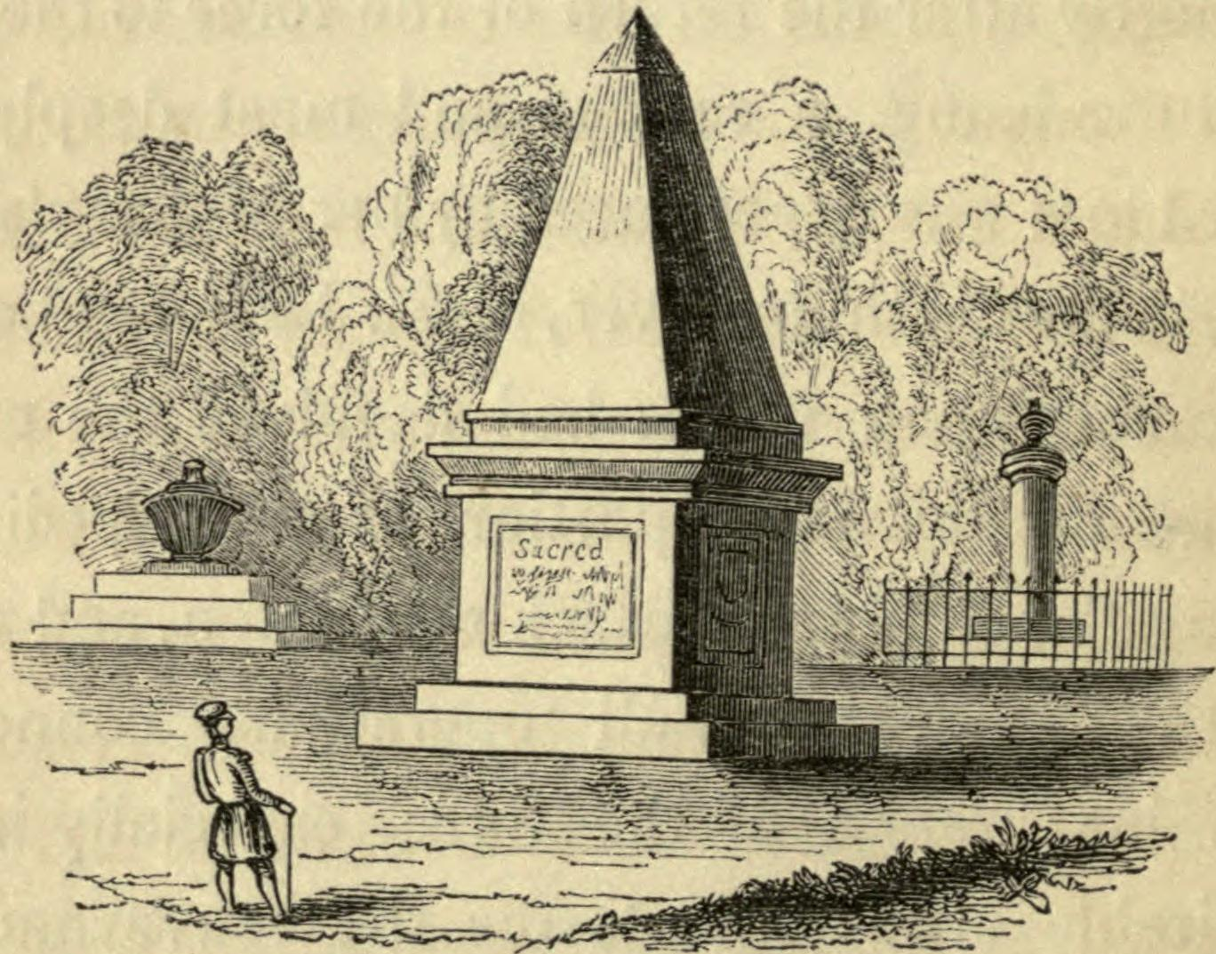 Tomb of Sir Humphrey Fleming Senhouse in Macao.